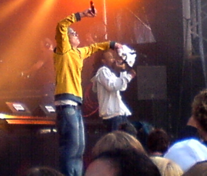 Paperboys. Vinnie to the left. At The voice 06